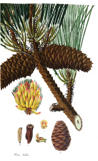 Pinus taeda. Botanical illustration from: Description of the Genus Pinus, with directions relative to the cultivation, remarks on the uses of the several species and descriptions of many other new species of the Family of Coniferae illustrated with figures by Aylmer Bourke Lambert, Esq. London: Messrs. Weddell, MDCCCXXXII